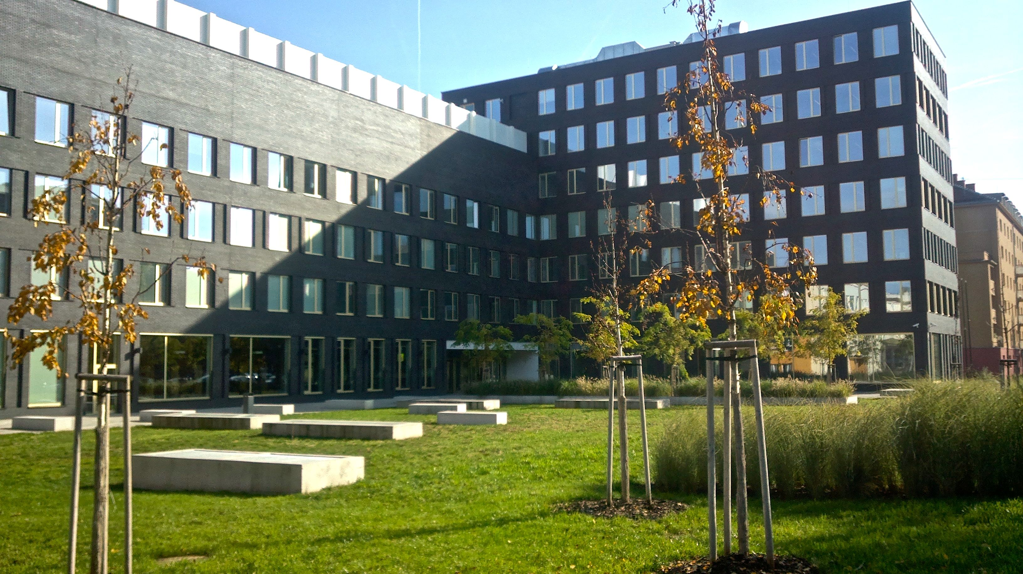 Faculty of Informatics, new buildings (from 2014) in spring 2015